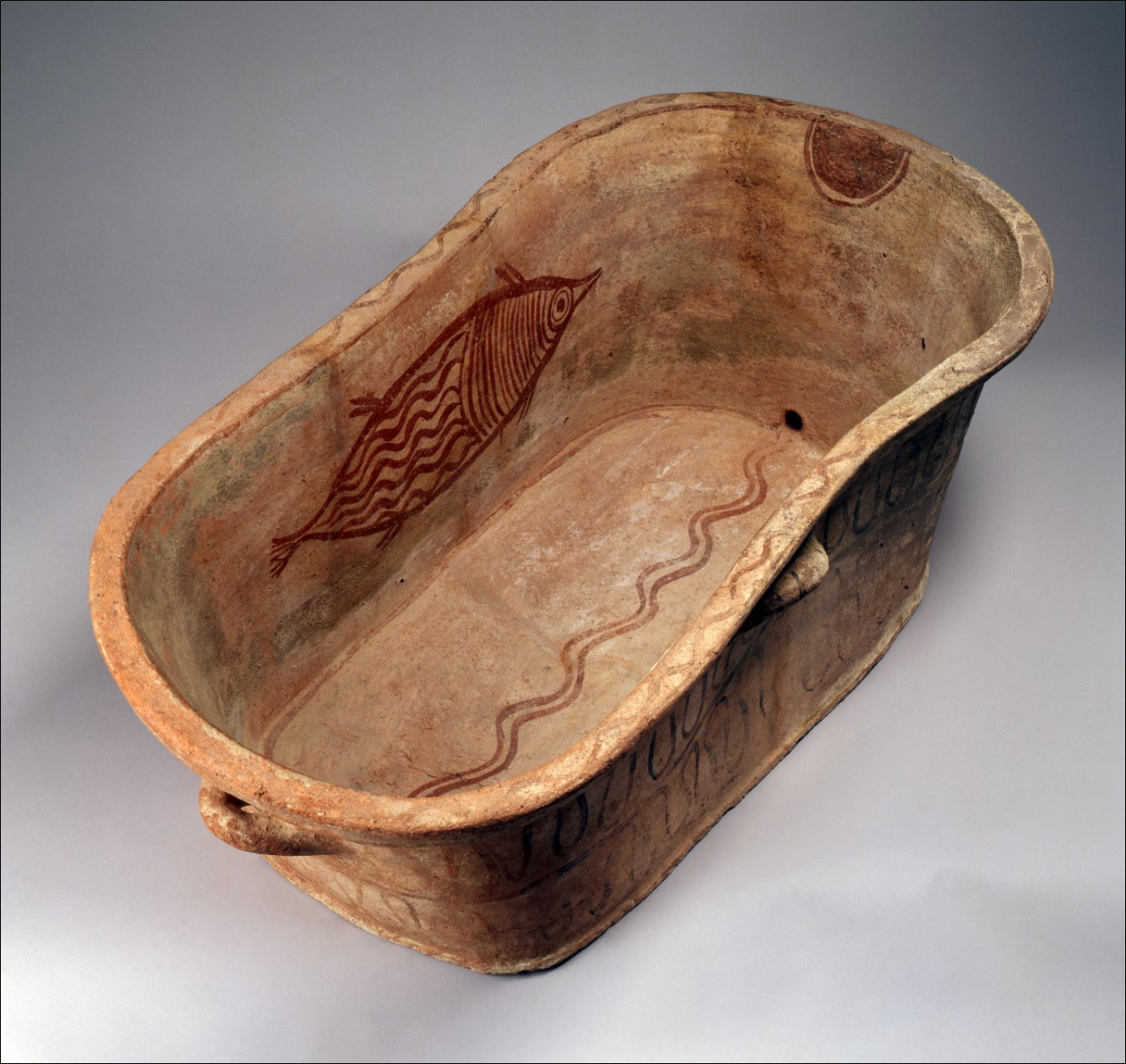 Bathtub - Larnax palace of Knossos XIVe century BC.